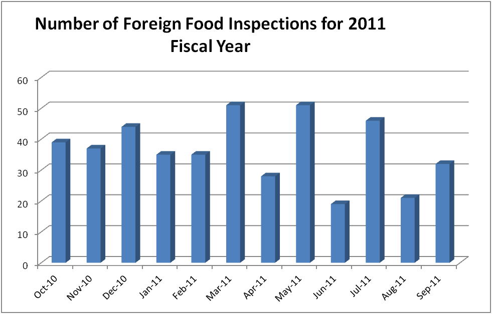 2011 Fiscal year Foreign Food Inspection chart by FDA.png